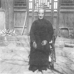 Zhu An (Lu Xun's spouse) in Beijing